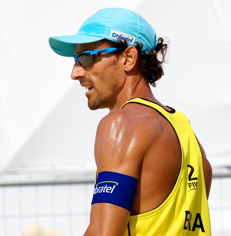 Grand Slam Moscow 2011